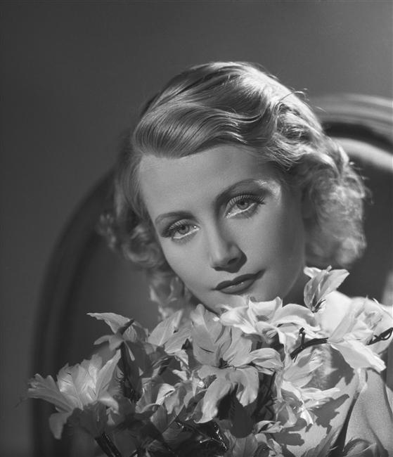 Studio photo